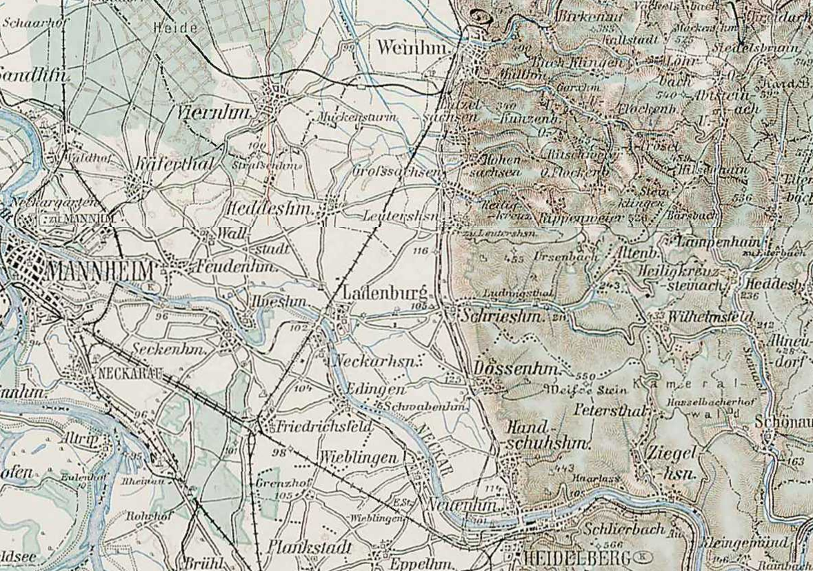 part of 3rd Military Mapping Survey of Austria-Hungary - Mainz/Karlsruhe